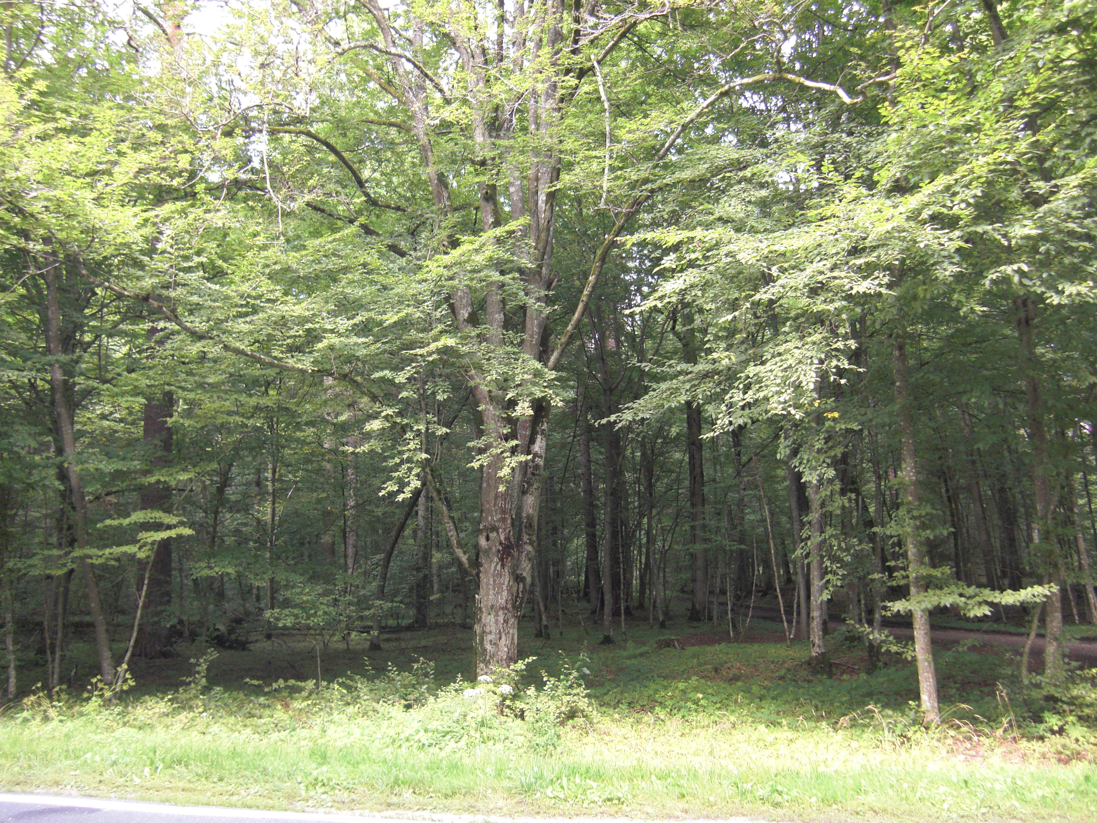 Carpinus betulus in Rezerwat Krajobrazowy (Białolwieża Forest, square 418B)